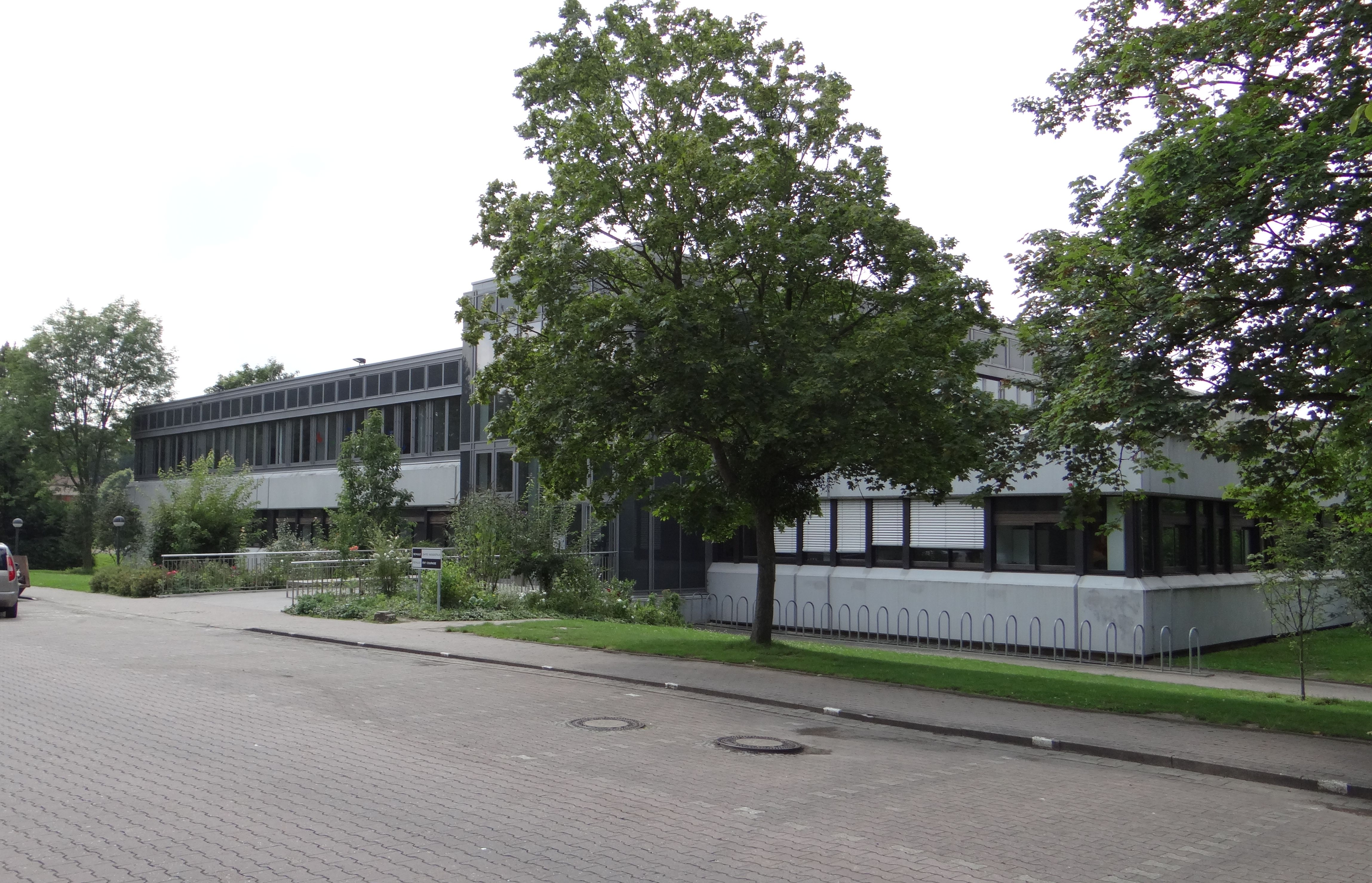 Gymnasium Adolfinum Bückeburg, Germany.